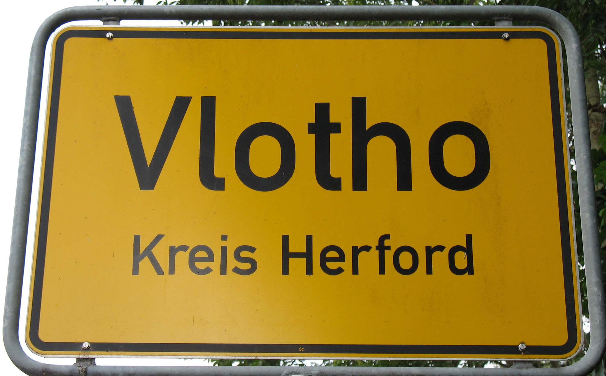 The place-name sign of town of Vlotho, District of Herford, North Rhine-Westphalia, Germany.